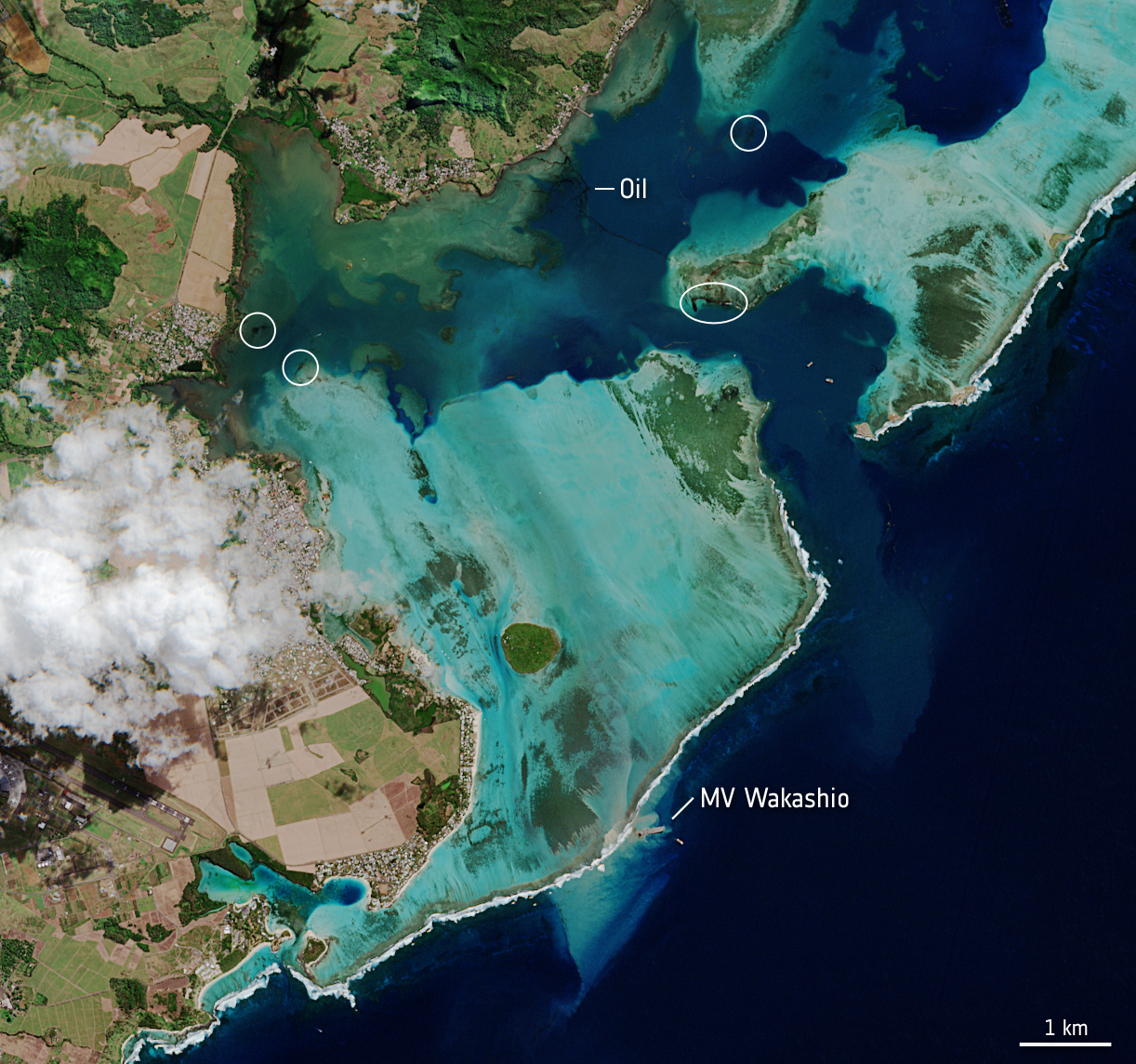 The island of Mauritius has declared a ‘state of environmental emergency’ after a grounded vessel began leaking tonnes of oil into the Indian Ocean. Satellite images, which show the dark slick spreading in the nearby waters, are being used to monitor the ongoing spill.The MV Wakashio vessel, reported to be carrying nearly 4000 tonnes of oil, ran aground on a coral reef on Mauritius’s southeast coast on 25 July. According to media reports, more than 1000 tonnes of fuel have leaked from the cracked vessel into the ocean – polluting the nearby coral reefs, as well as the surrounding beaches and lagoons.In this image, captured on 11 August by the Copernicus Sentinel-2 mission, the MV Wakashio, visible in the bottom of the image, is stranded close to Pointe d’Esny, an important wetland area. The oil slick can be seen as a thin, black line surrounded by the bright turquoise colours of the Indian Ocean. Oil is visible near the boat, as well as other locations around the lagoon.In response to the spill, the International Charter Space and Major Disasters was activated on 8 August. The charter is an international collaboration that gives rescue and aid workers rapid access to satellite data in the event of a disaster. A full report that provides a preliminary assessment of the oil spill, using imagery from the Copernicus Sentinel-2 mission, is available here.Copernicus Sentinel-2 is a two-satellite mission to supply the coverage and data delivery needed for Europe’s Copernicus programme. The mission’s frequent revisits over the same area and high spatial resolution allow changes in water bodies to be closely monitored.